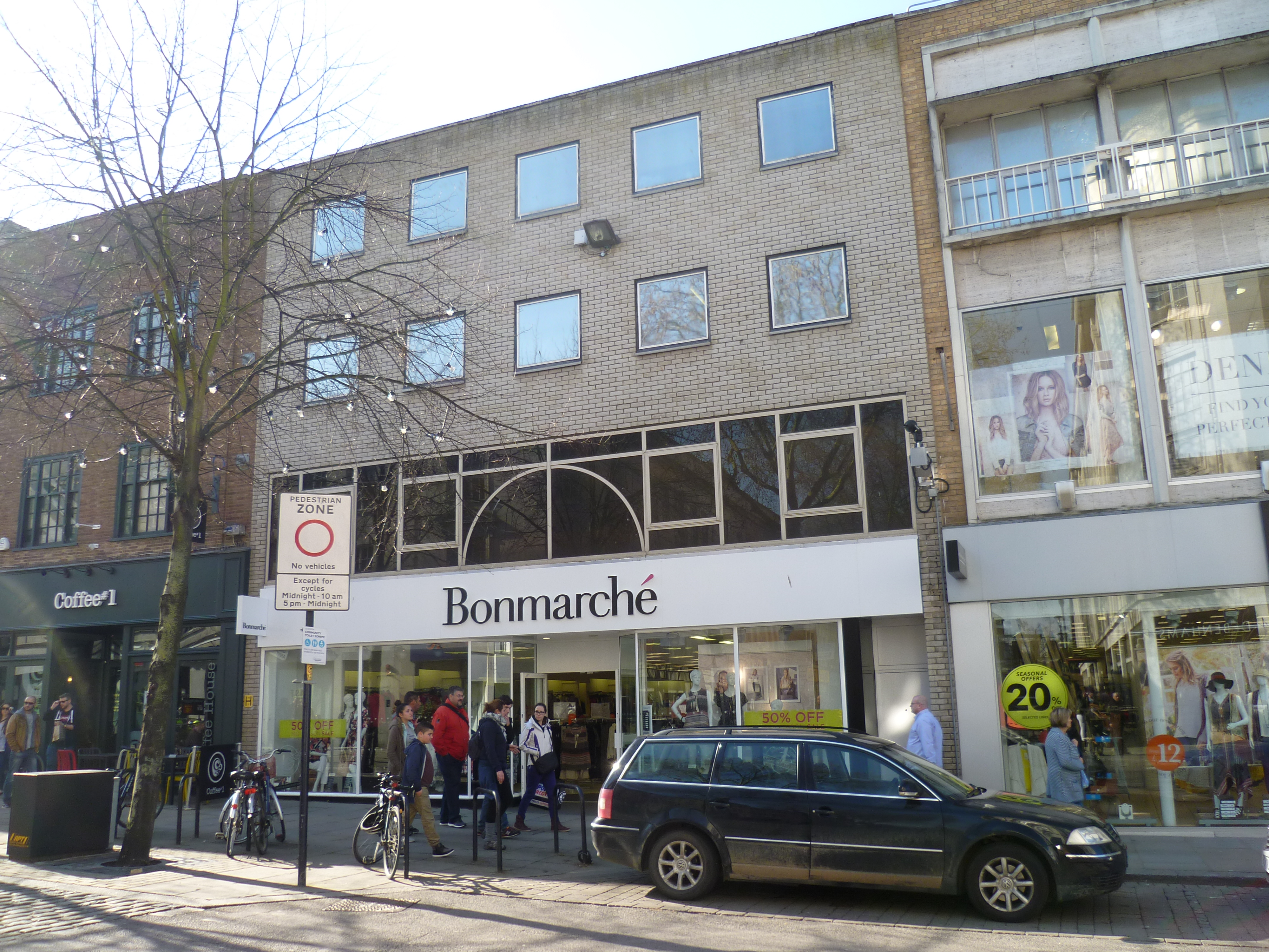 Gloucester